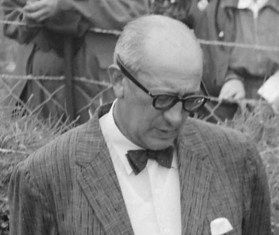 The Reverend W.N.Panapa, Bishop of Aotearoa, dedicating a memorial stone to the 37 followers of Te Kooti Arikirangi Te Turuki killed in the battle at Te Pōrere, 4 October 1869. The stone marks the spot where they are buried in a corner of the main (upper) redoubt. The stone was unveiled on 18 February 1961. From left to right: John Te Herekiekie Grace, Māori representative of the National Historic Places Trust; Ormond Wilson, chairman of the Trust; Governor-General Lord Cobham; Bishop Panapa; Hepi Te Heu Heu, ariki of Ngāti Tūwharetoa. Photographer: R Fox Archives Reference: AAQT 6401 Box 37/ A64648 Material from Archives New Zealand